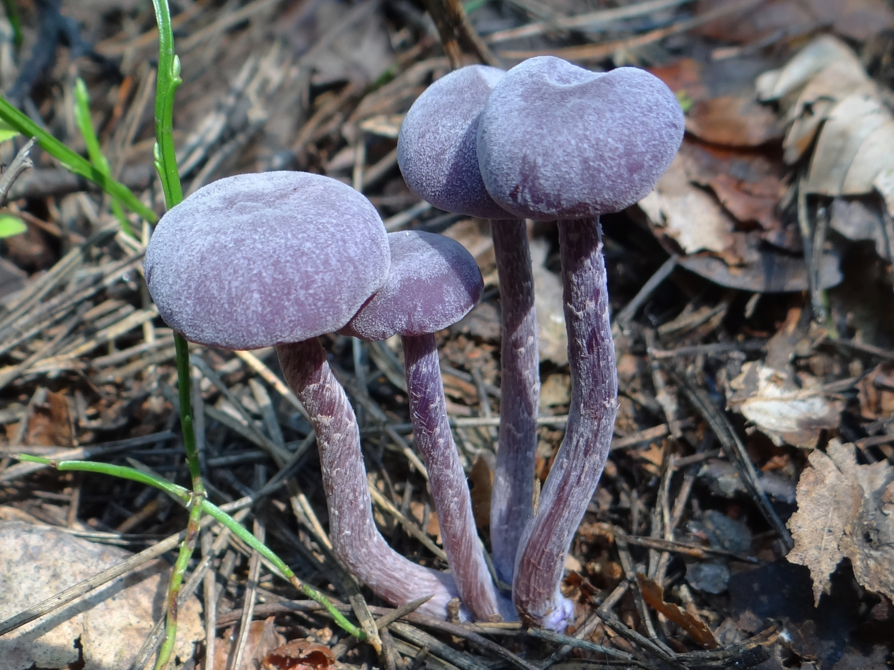 Laccaria amethystina )location: Poland, Beskid Wyspowy, Kamionna)